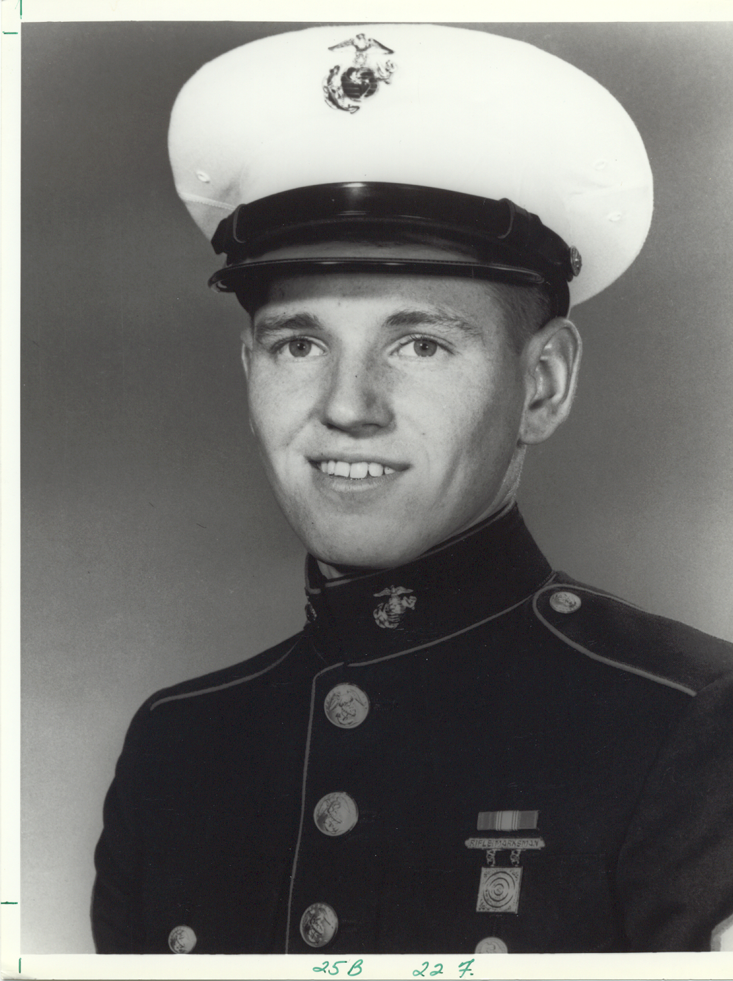 William T. Perkins, Jr. (1947-1967), USMC; posthumous Medal of Honor recipient, killed in action during the Vietnam War